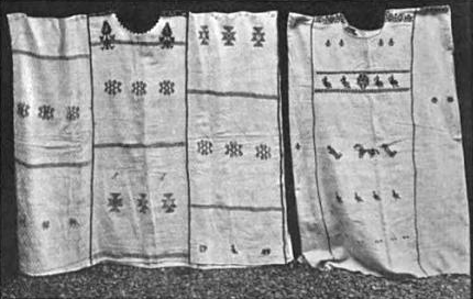 These are embroidered "huipiles" (traditional garments of indigenous American origin) made by the Tlapanec people. This photograph was located on page 452 of the book. The original caption of the photograph in the book from which it came was "Embroidered "Huipiles" Tlapaneca Tribe".